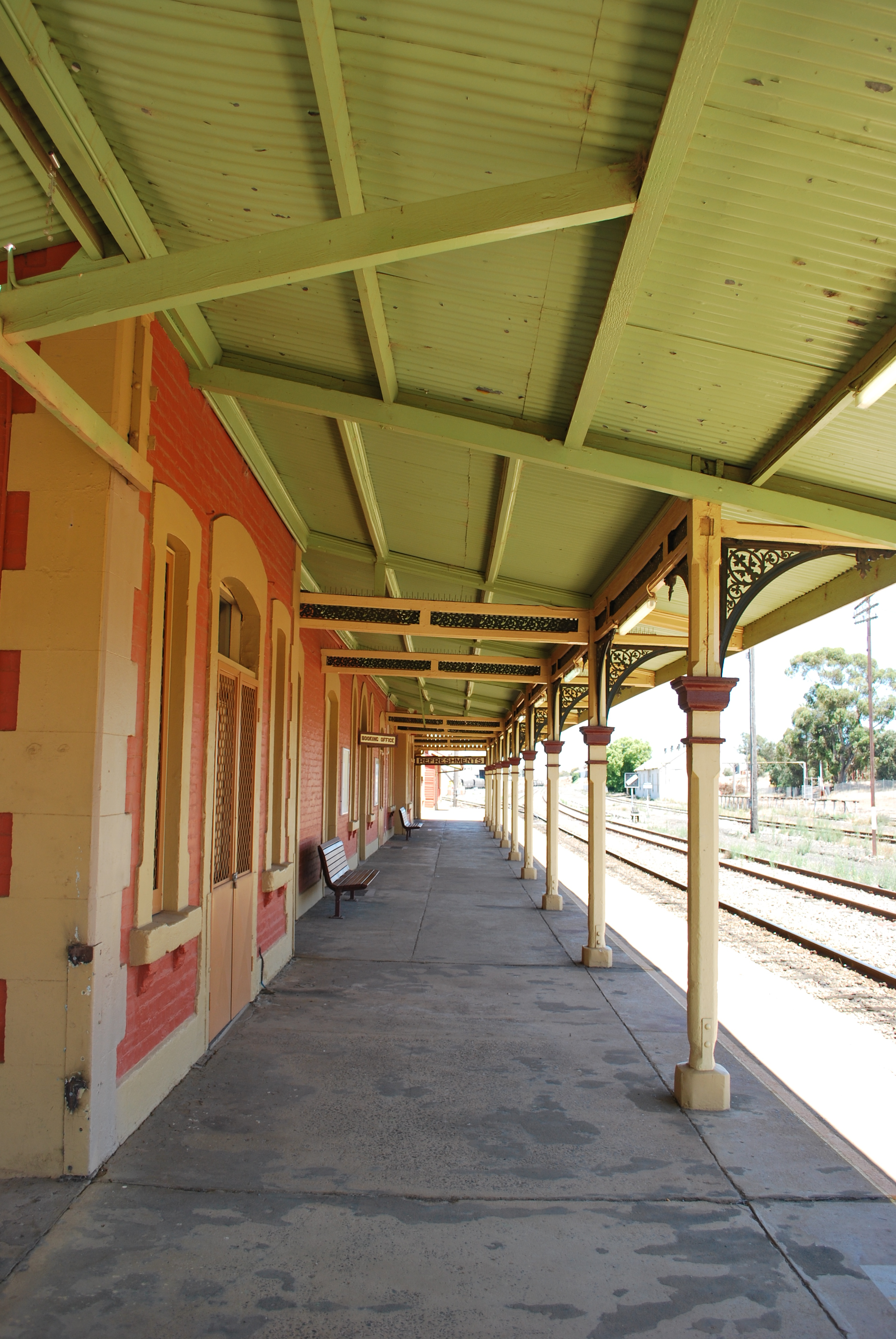 Railway station platform at Narrandera, New South Wales